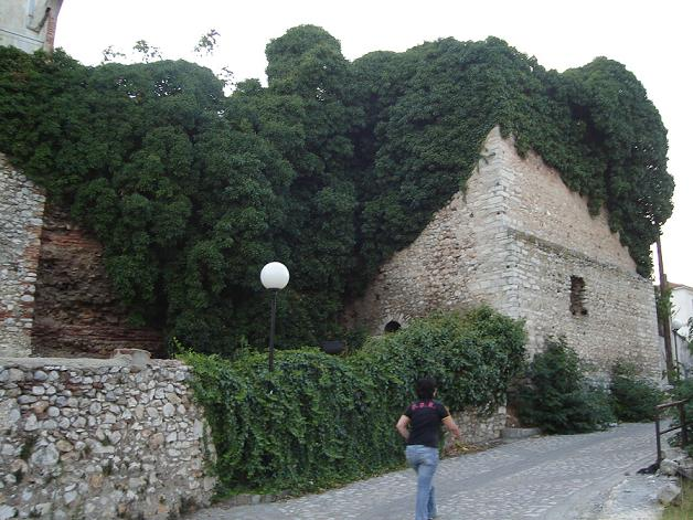 Part of Drama's Byzantine wall